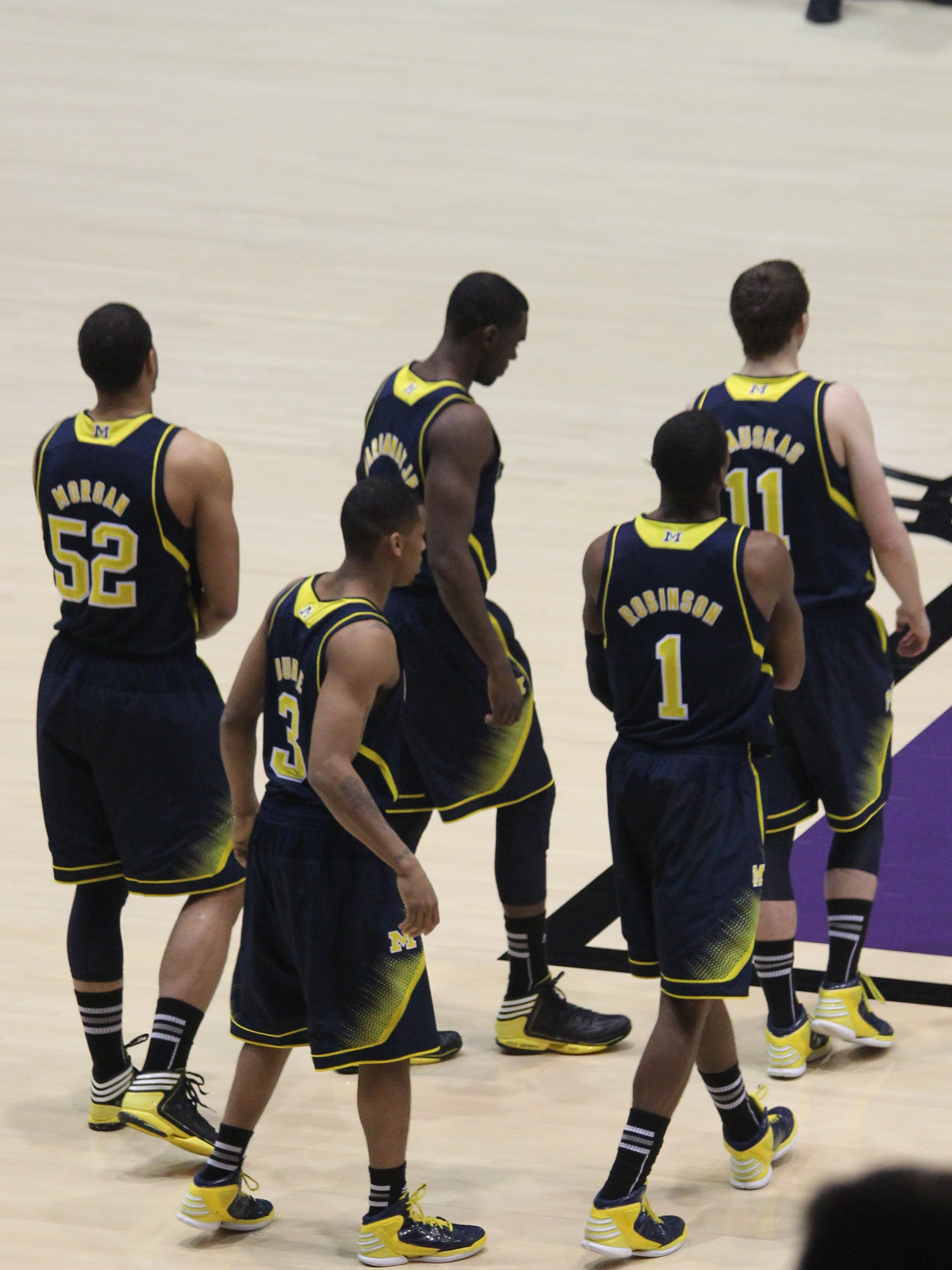 2012–13 Michigan Wolverines men's basketball team starting five #1 Glenn Robinson III, #3 Trey Burke, #10 Tim Hardaway, Jr., #11 Nik Stauskas and #52 Jordan Morgan